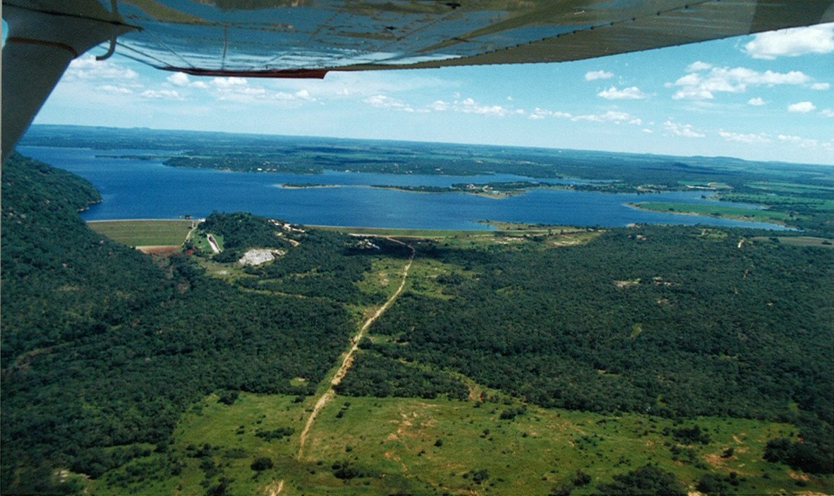 Aerial view of Mazvikadei Dam